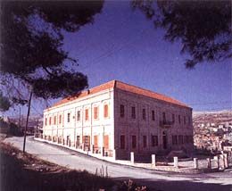 A picture of the old serail in Zahle, Lebanon.